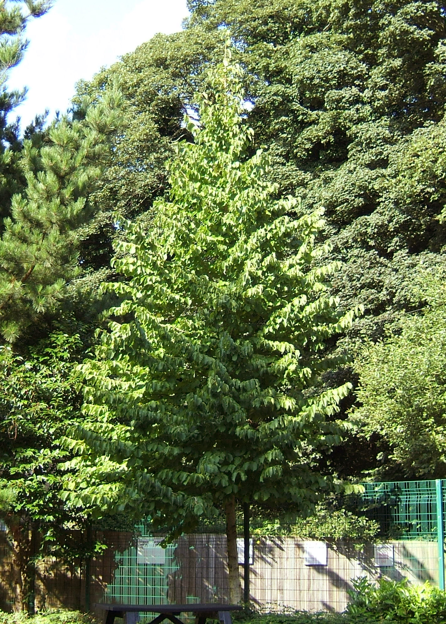 Corylus colurna young tree - photo MPF Cultivated, UK